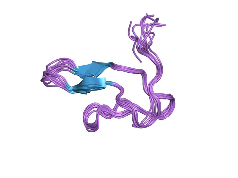 Cartoon representation of the molecular structure of protein registered with 1hy9 code.